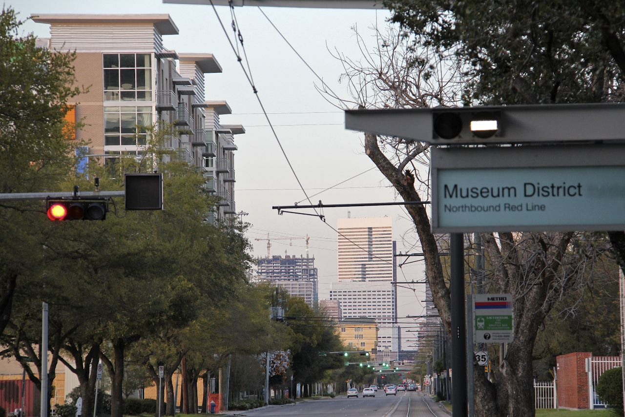 I took this photo myself of the Houseon Museum District on 3/22/10 at Museum District northbound Metro Rail station.